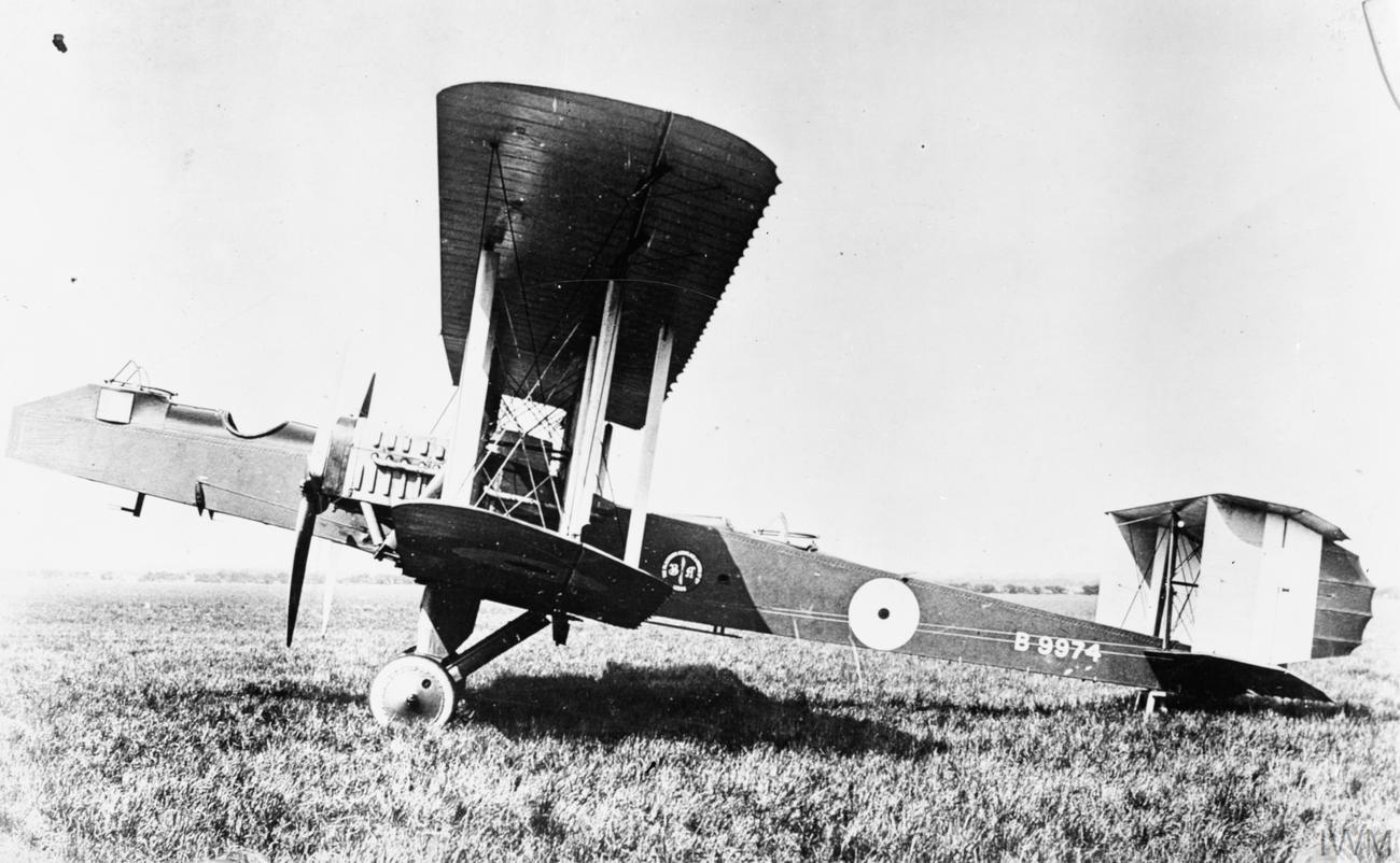 Blackburn Kangaroo twin engined anti-submarine patrol aircraft of the Fiirst World War